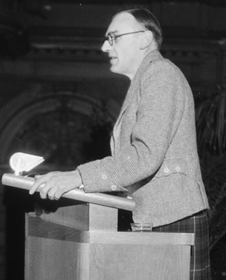 Joseph Macleod in the Concertgebouw in Amsterdam on 23 February 1946 (cropped from original)